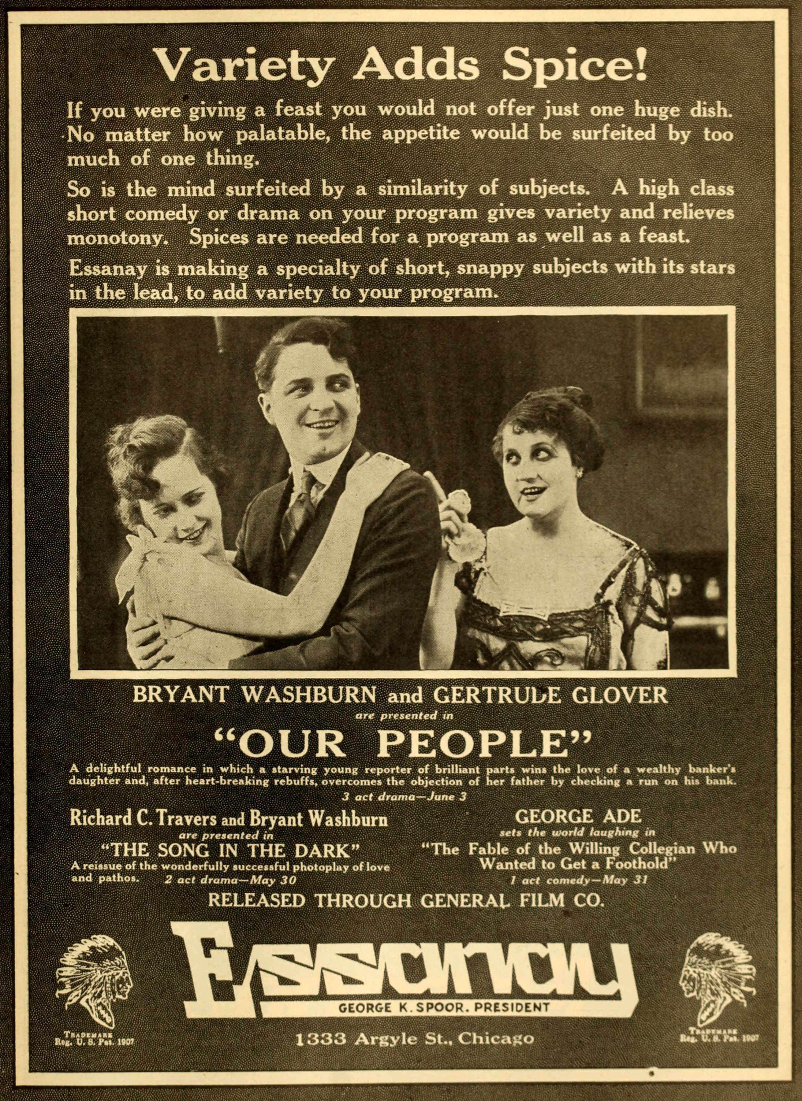 Advertisement in The Moving Picture World